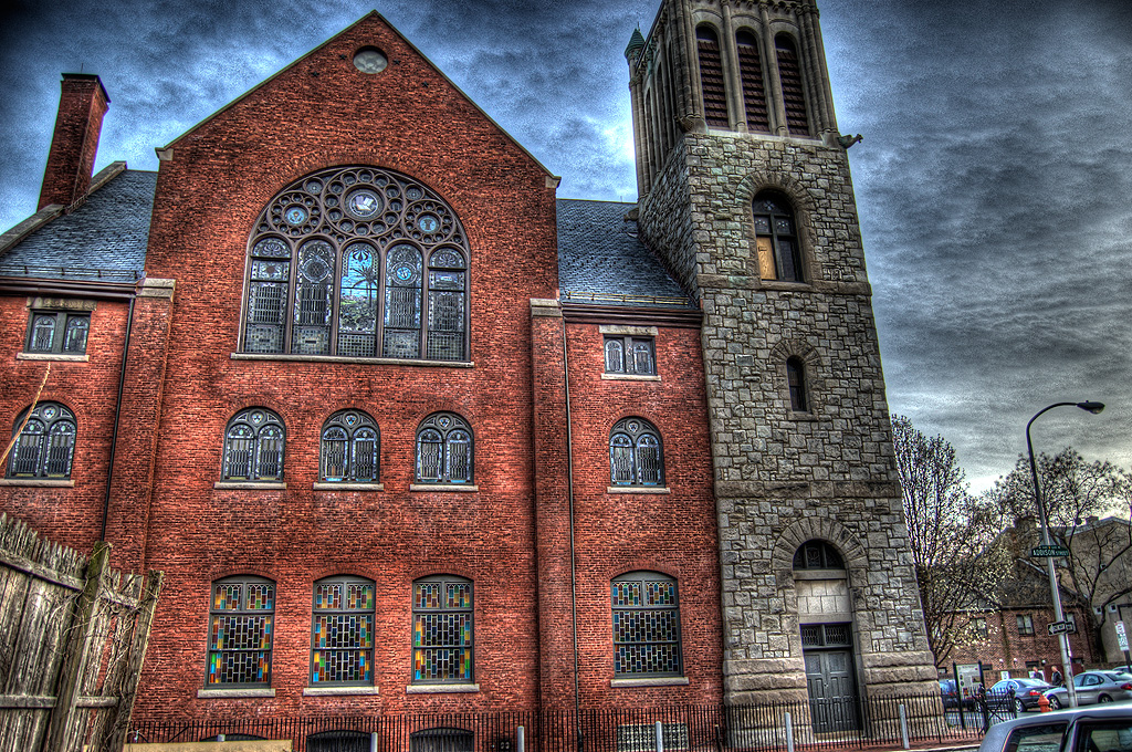 Mother Bethel A.M.E. Church in Philadelphia